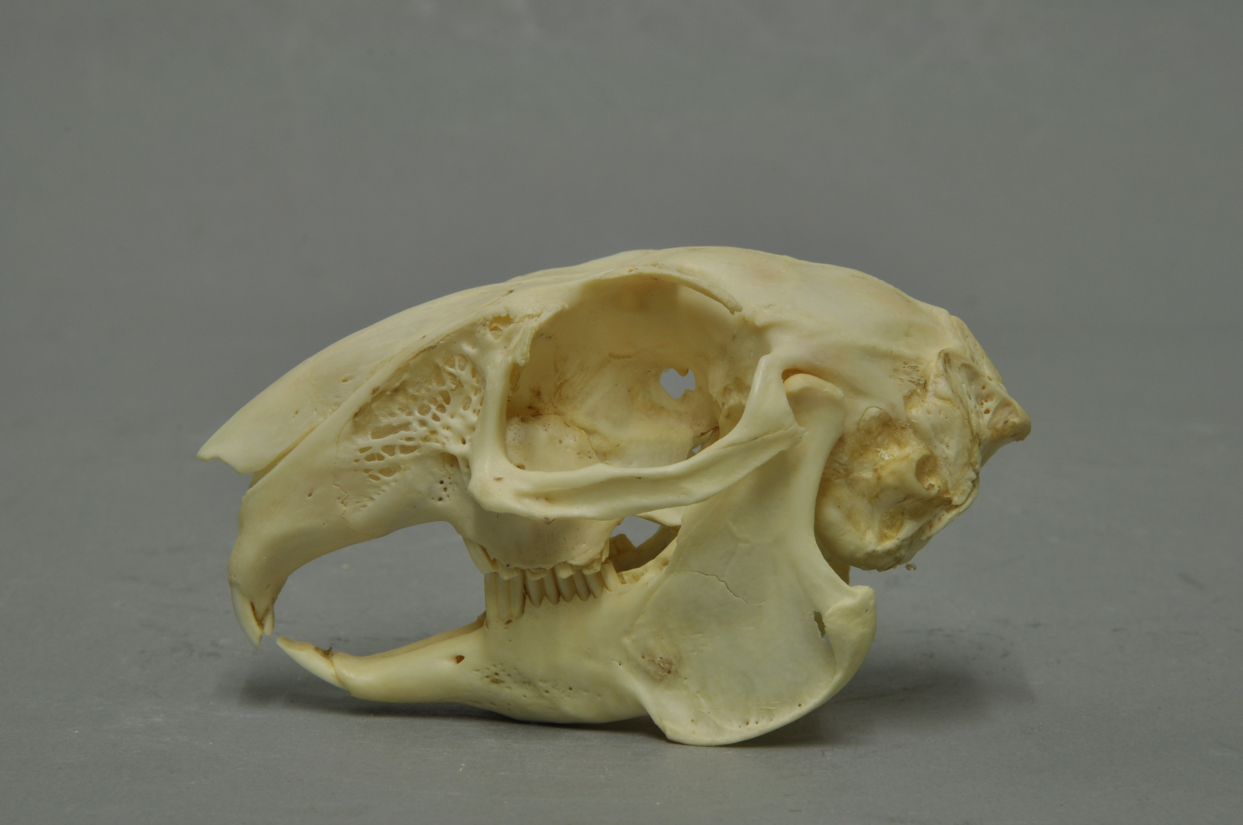 Indian hare Lepus nigricollis , skull, Coll. Museum Wiesbaden